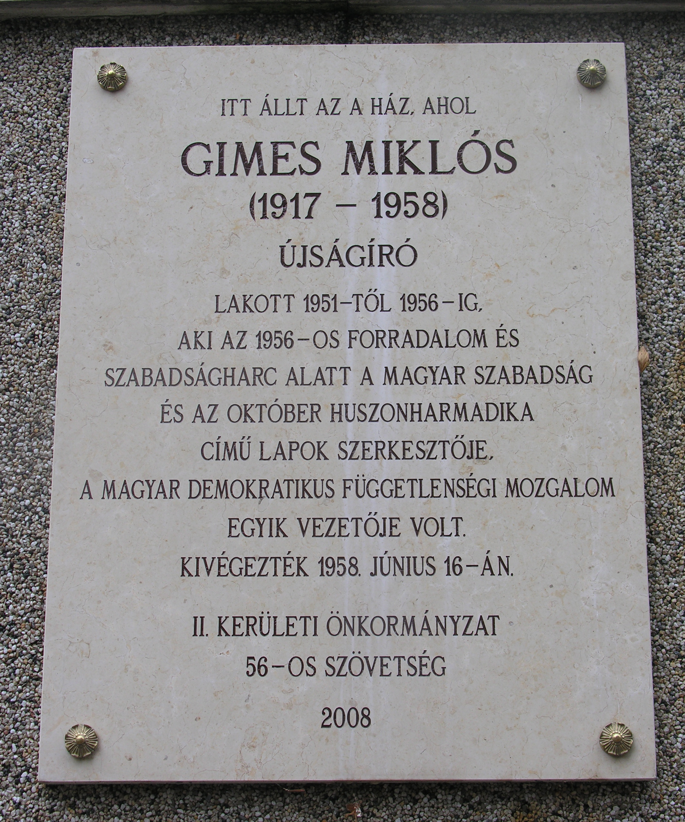 Commemorative plaque of Miklós Gimes, Budapest District II, Virág árok No 10/b